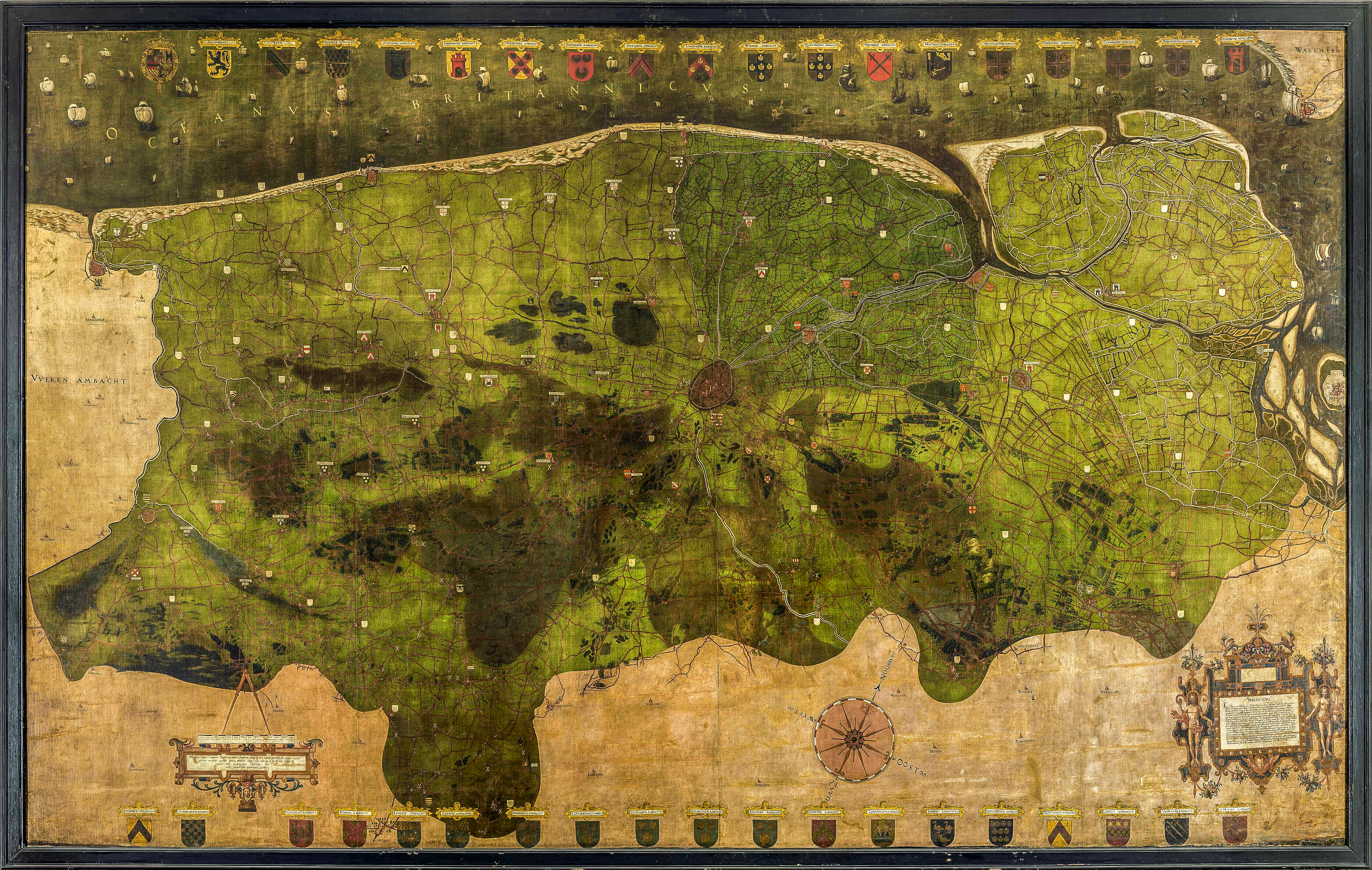 Old map of Kaart van het Brugse vrije.